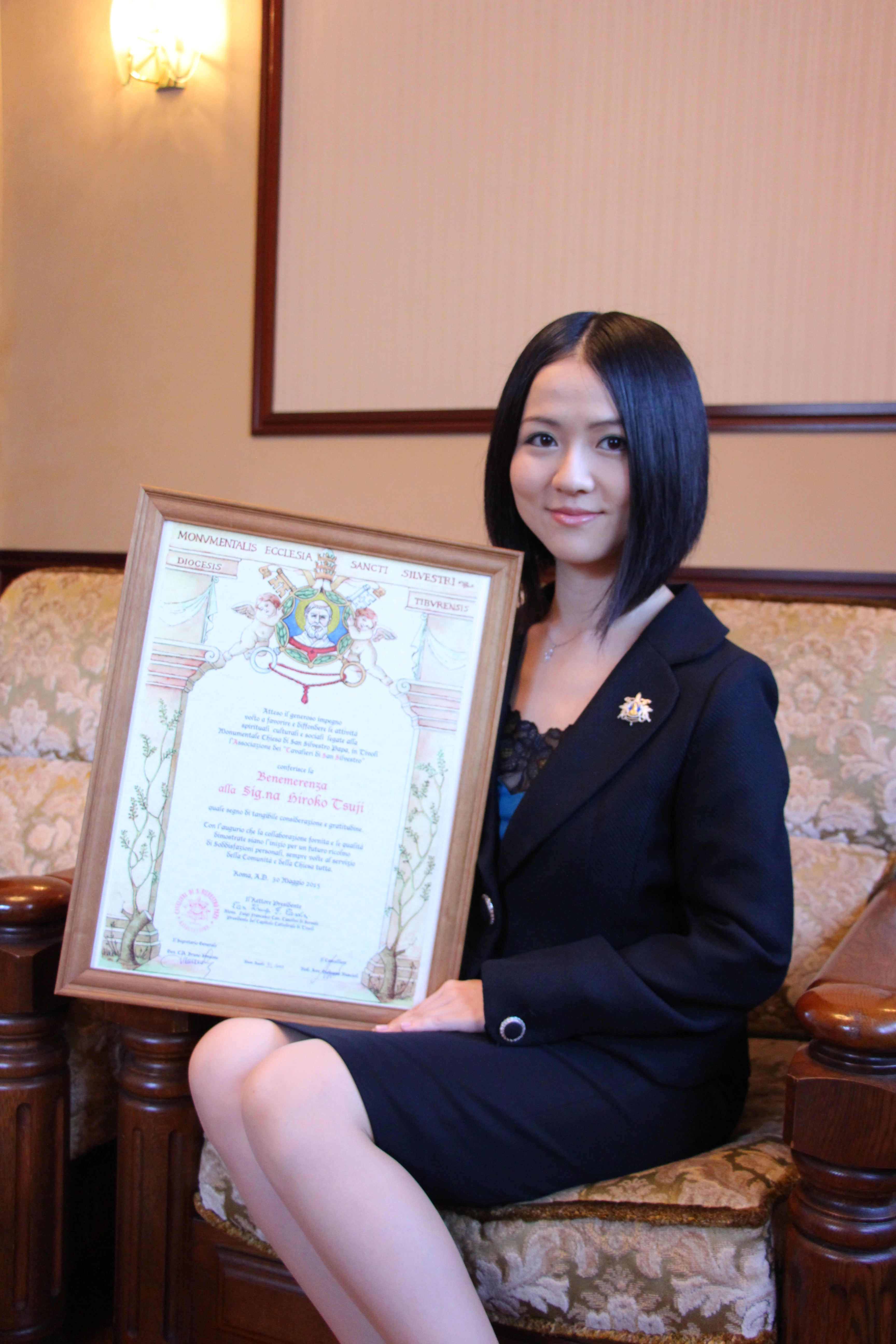 Hiroko Tsuji an accoladed by Order of St. Sylvester